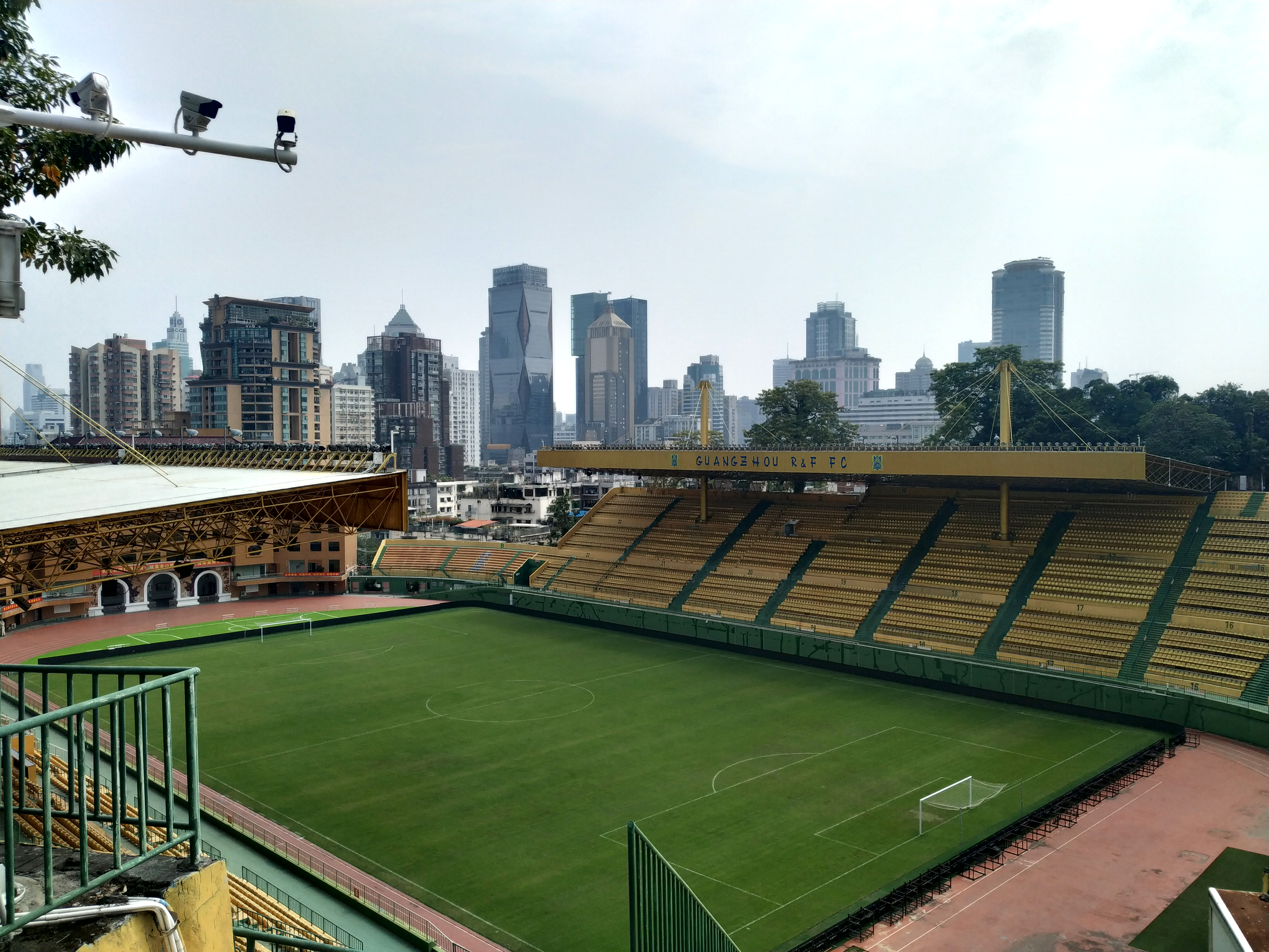 Yuexiushan Stadium after the 2016 renovation.